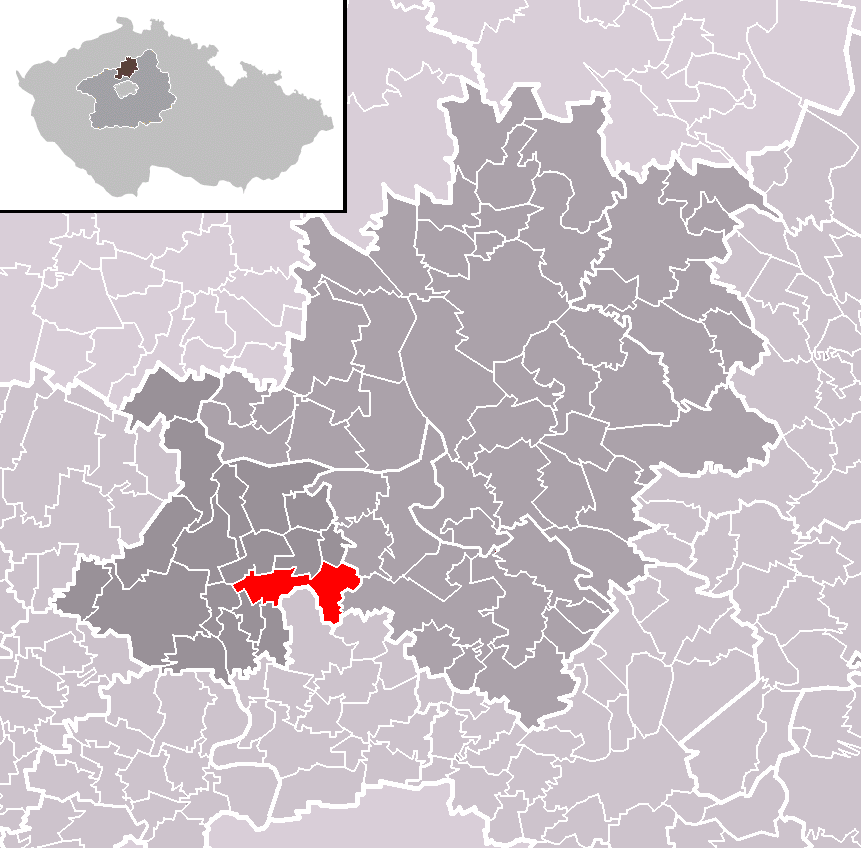 Location of Úžice municipality within Mělník District and administrative area of Kralupy nad Vltavou as a Municipality with Extended Competence.